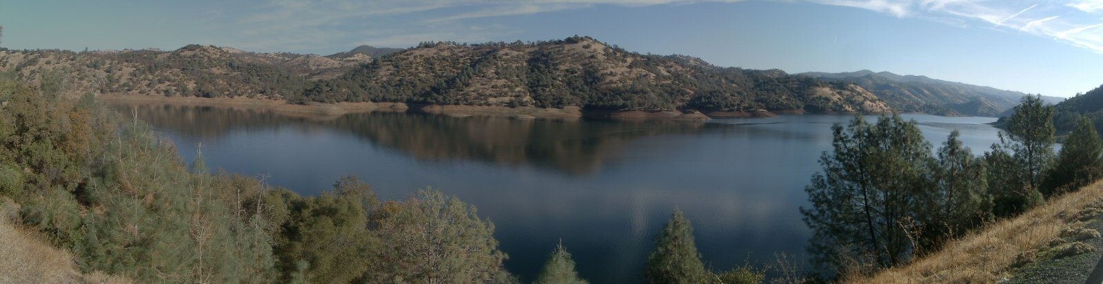 Description: Panoramic view of the northern arm of the Don Pedro Lake (seen from Hwy 120). Source: Self-made using a Pentax Optio 430 Camera, then combined 4 individual pictures to a panorama using the software The Panorama Factory by Smoky City Design Date: Taken on 2005/11/24 Author: Luzian Wild (Luzian 23:21, 17 December 2005 (UTC)) Permission: See Licensing Other versions of this file